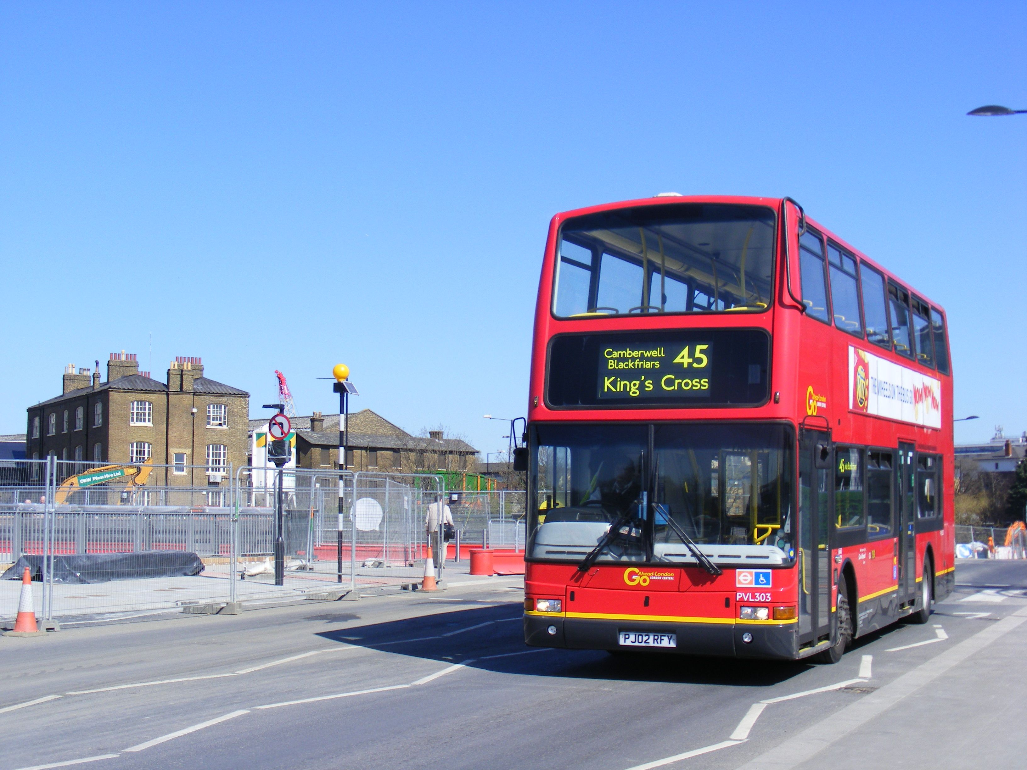 Kings Cross Go Ahead bus route nr 45